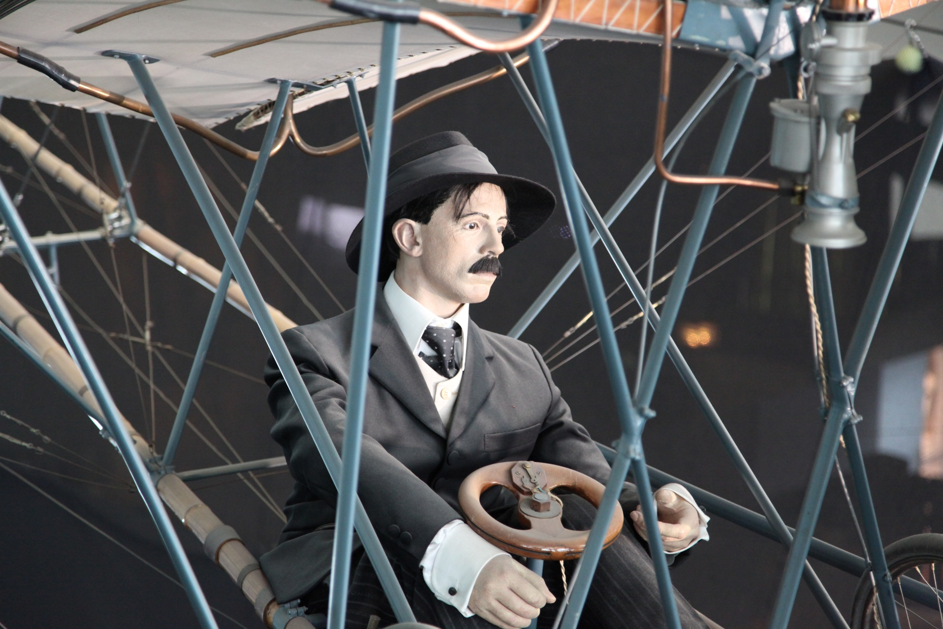 Santos-Dumont flying the Demoiselle No21 - Museum of Air and Space - Le Bourget